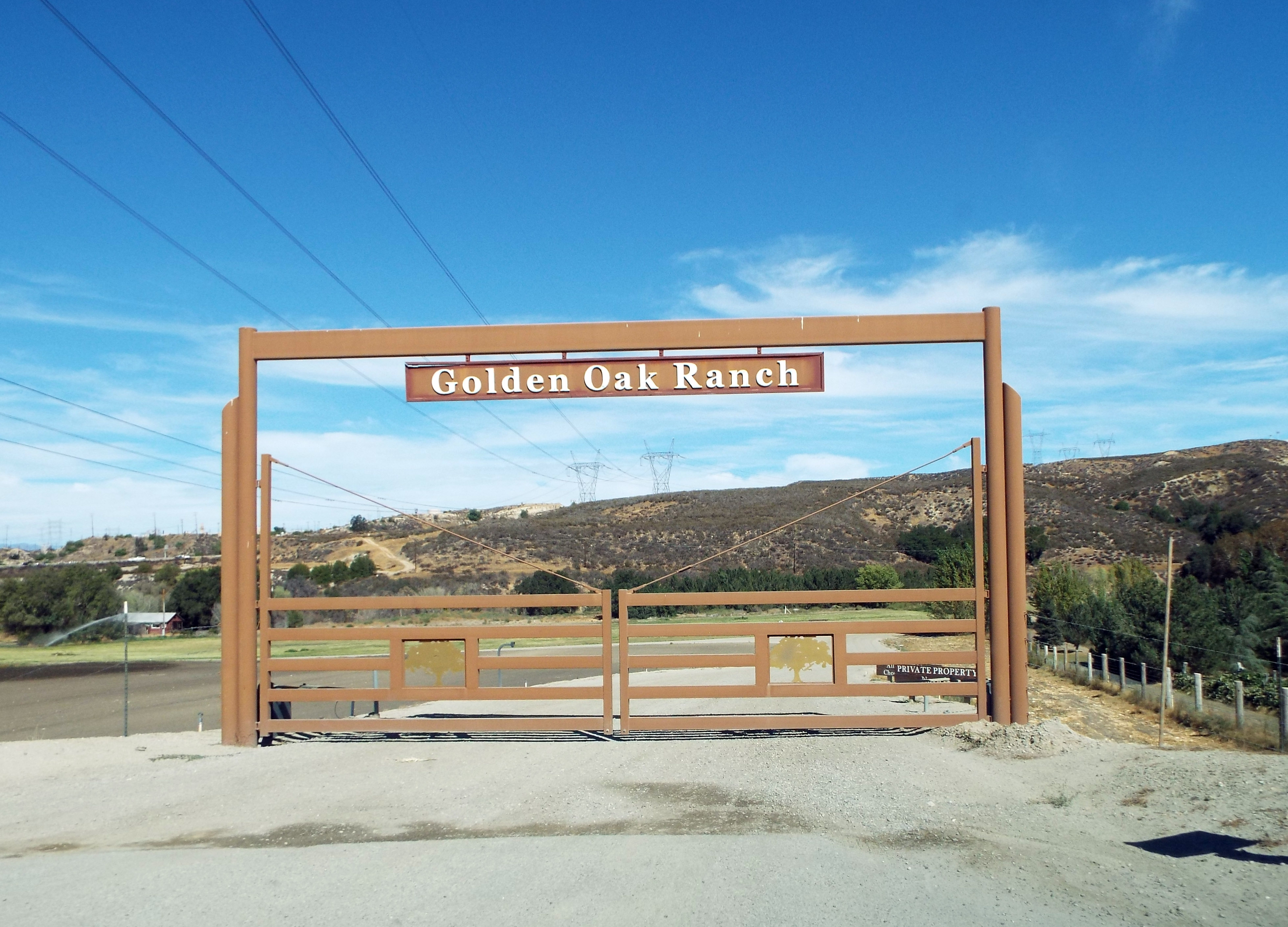 Entrance to the Golden Oak Ranch in Canyon Country, California. Photographed on October 4, 2014 by user Coolcaesar.